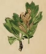 Stainton’s Natural History of the Tineina (1855–1873): Teleiodes vulgella hawthorn leaves fastened together and eaten by larva